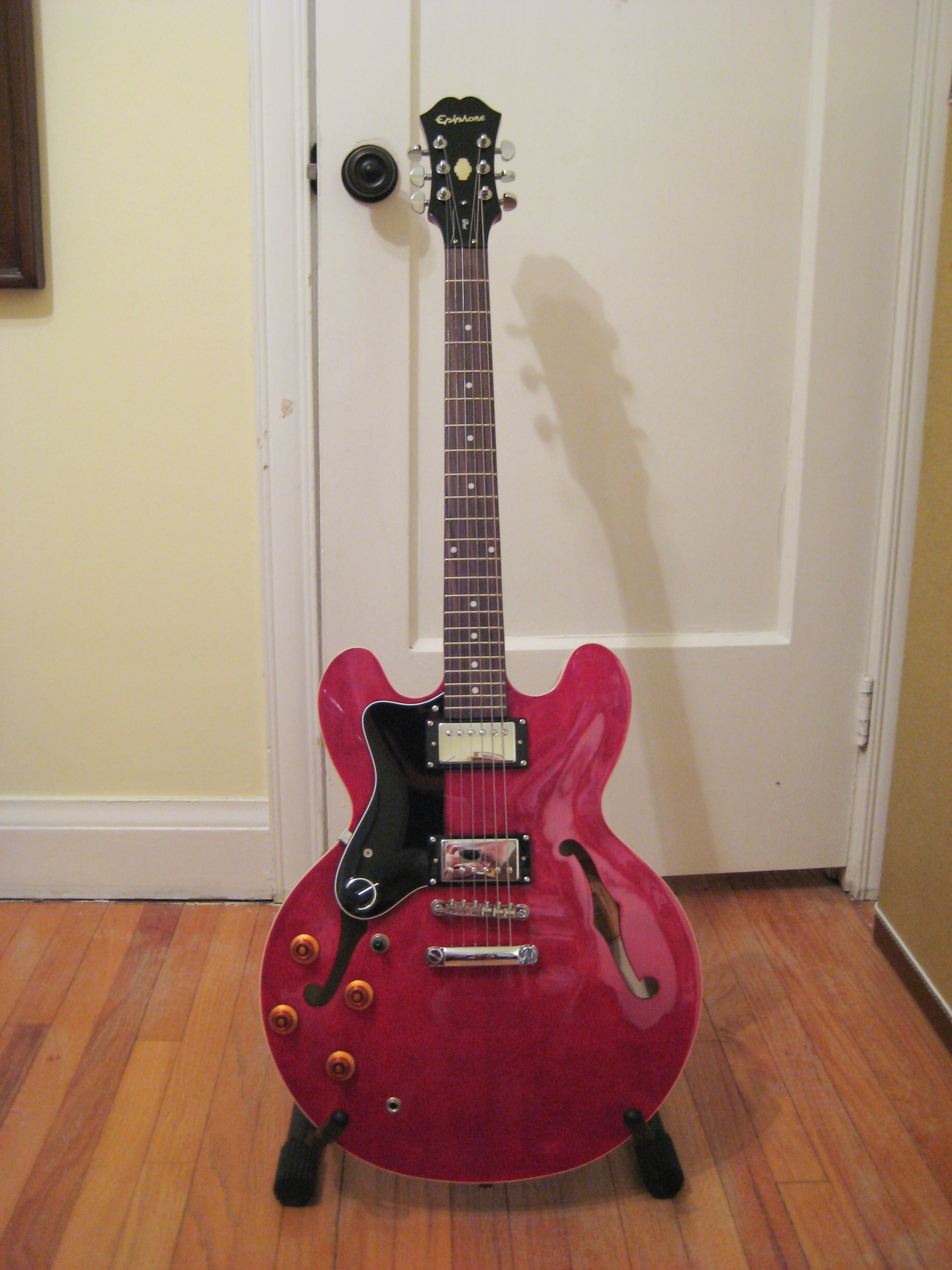 Brand new left-handed Epiphone Dot in Cherry Red